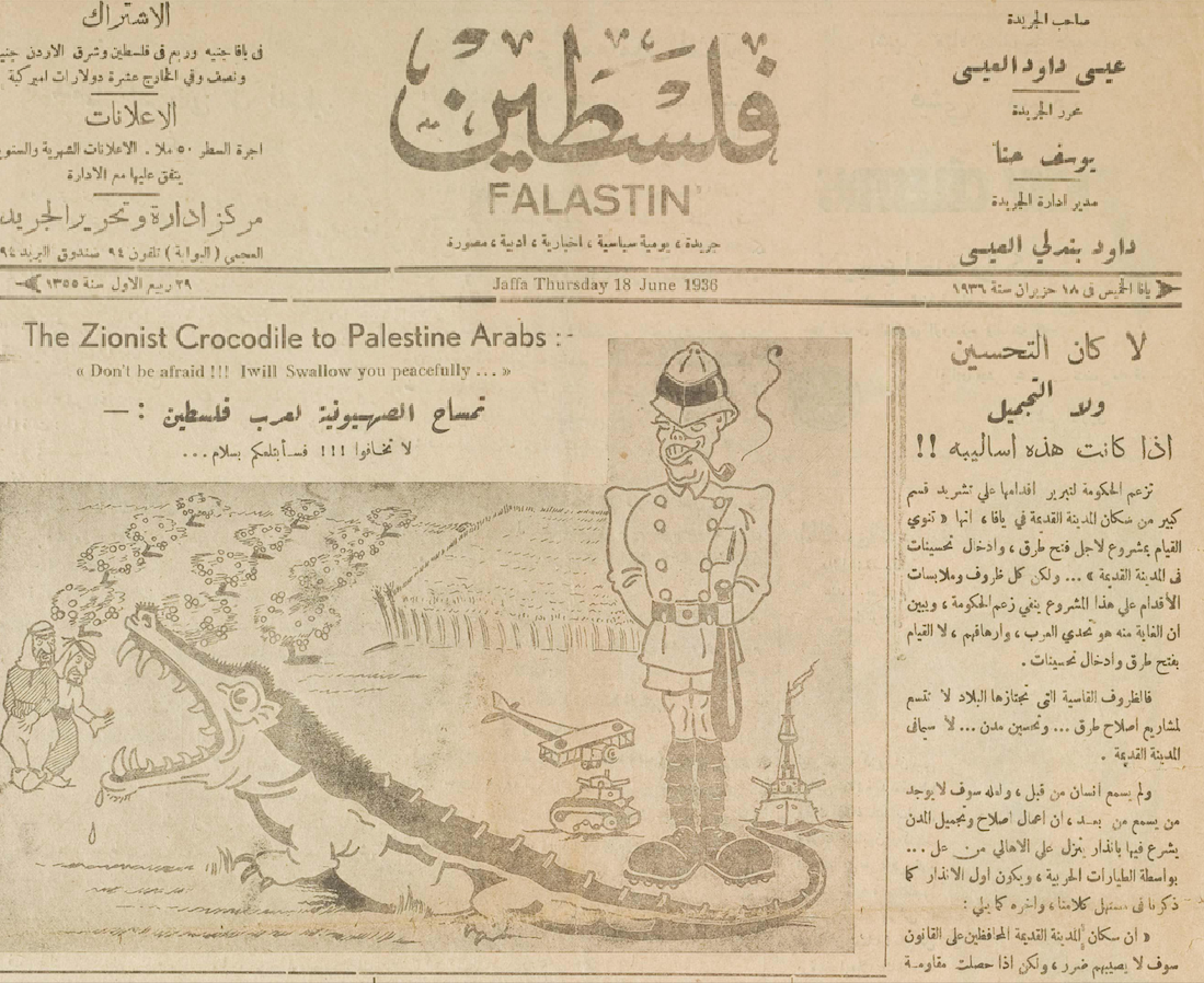 A 1936 caricature published in the Arabic-language Falastin newspaper on Zionism and Palestine